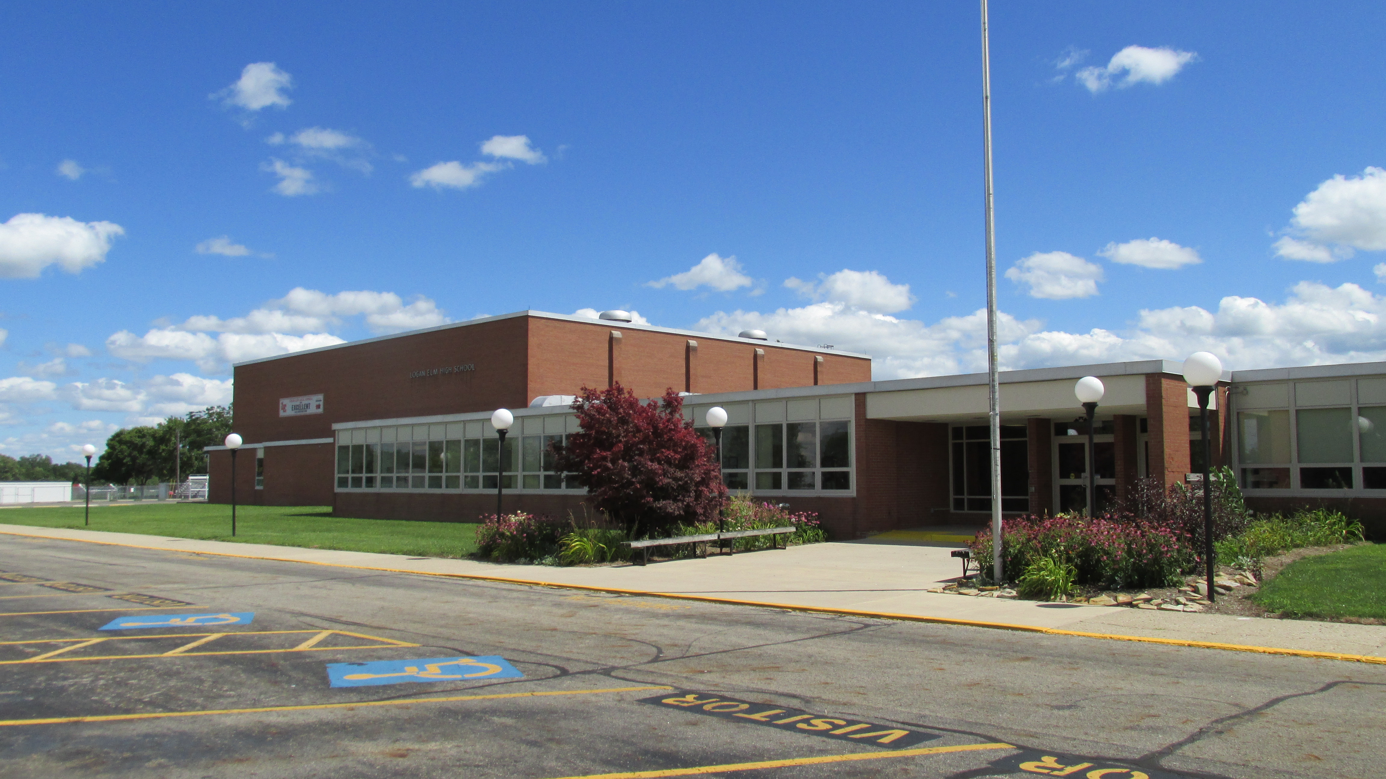 Logan Elm High School in Pickaway County, Ohio.